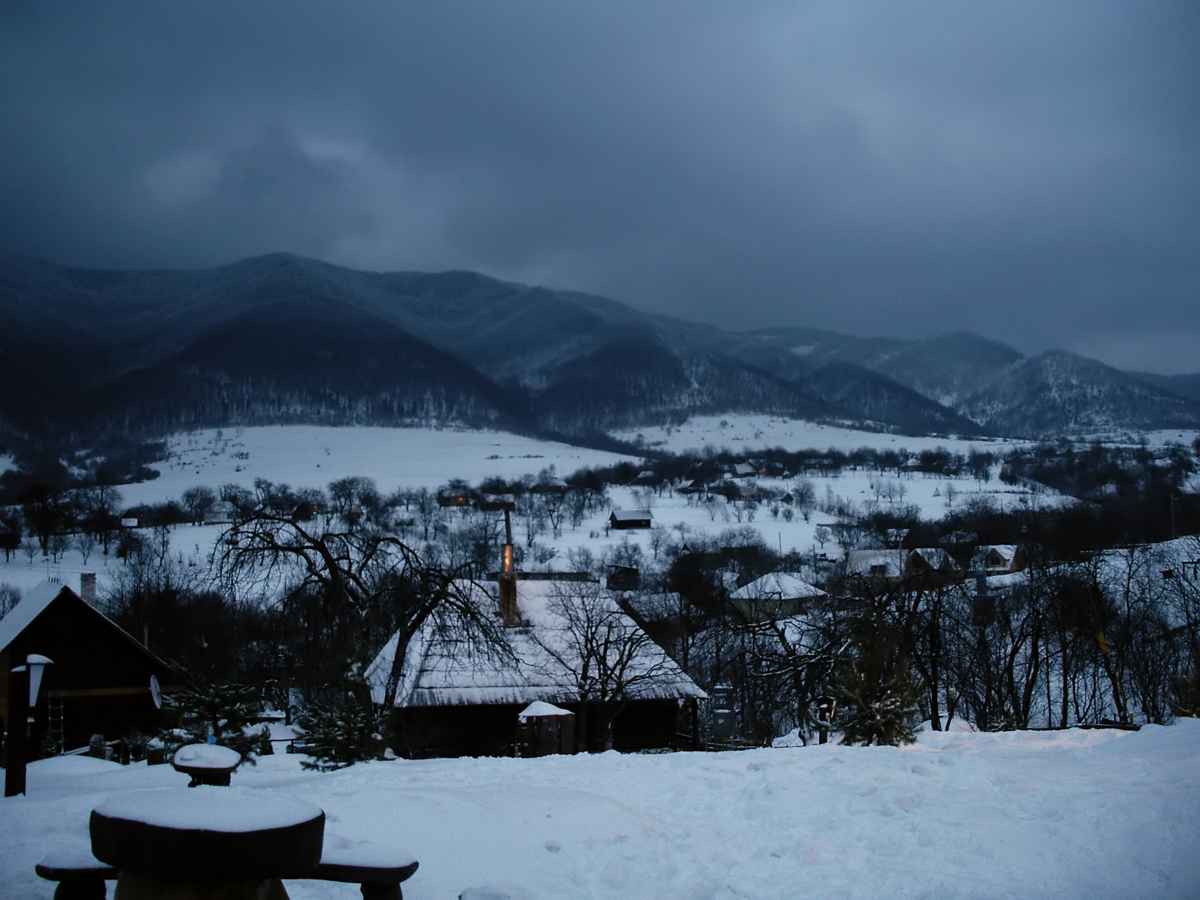 A part of Viska in the night (Ukraine).